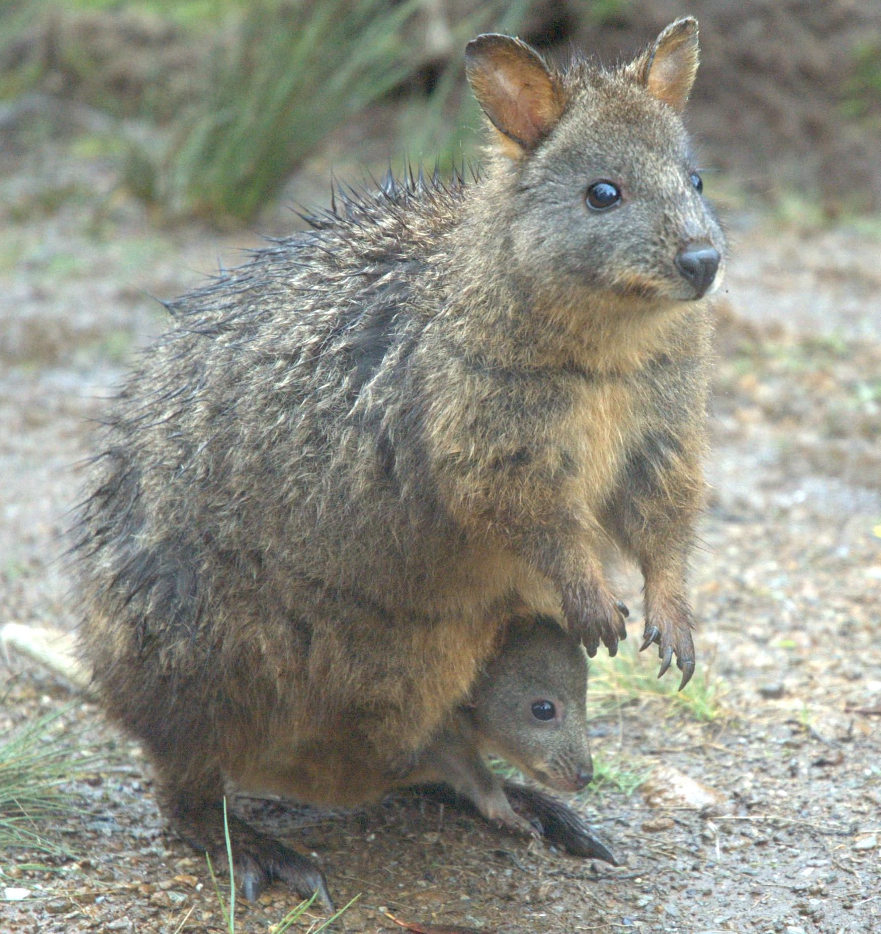 Tasmanian pademelon and her joey. Photographed in the Cradle Mountain area. December 2005. This and other photographs of Australian and other wildlife is available at higher resolution under a different license. пан Бостон-Київський 00:35, 4 March 2006 (UTC)